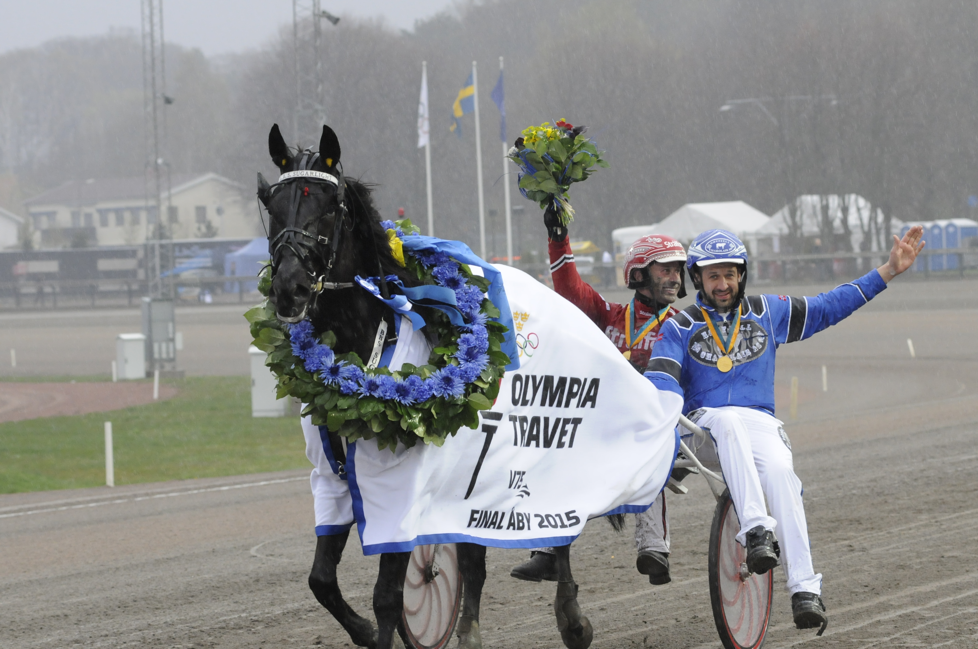 B.B.S.Sugarlight, driver Peter Untersteiner and trainer Fredrik Solberg after winning Olympiatravet 2015-04-25.